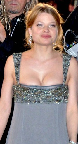 Mélanie Thierry at the César Awards